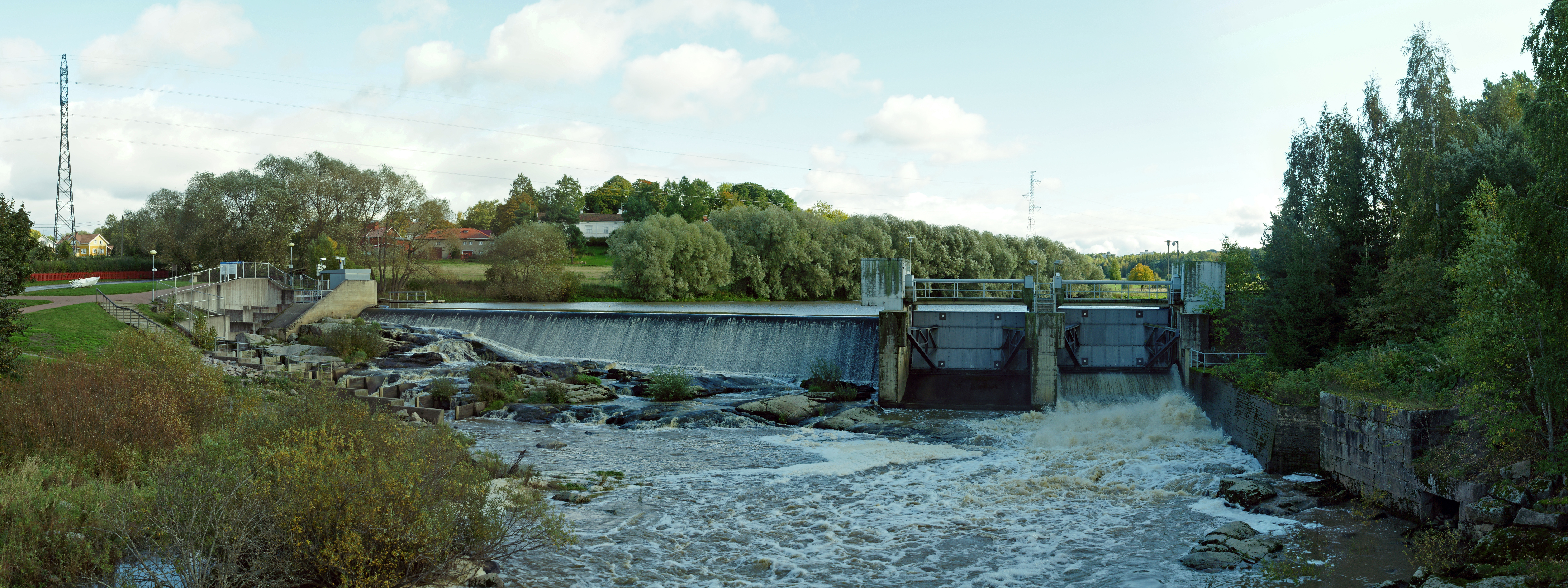 Halistenkoski rapid in Halinen, Turku.